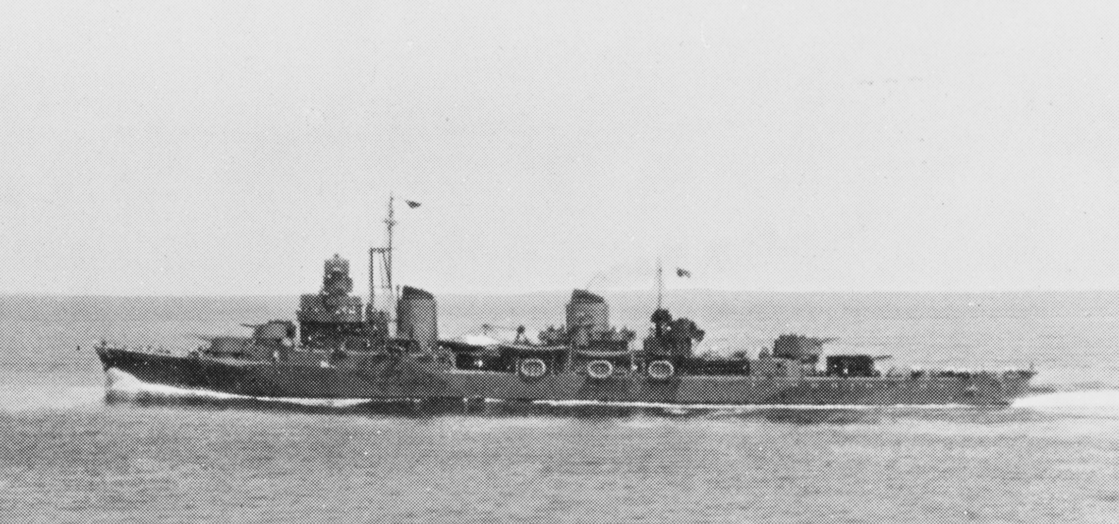 The Italian light cruiser Pompeo Magno surrendering at Malta on 9 September 1943.